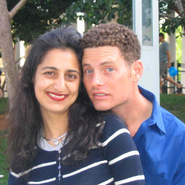 The difference of looks between Ashkenazi and Non-Ashkenazi Jews.